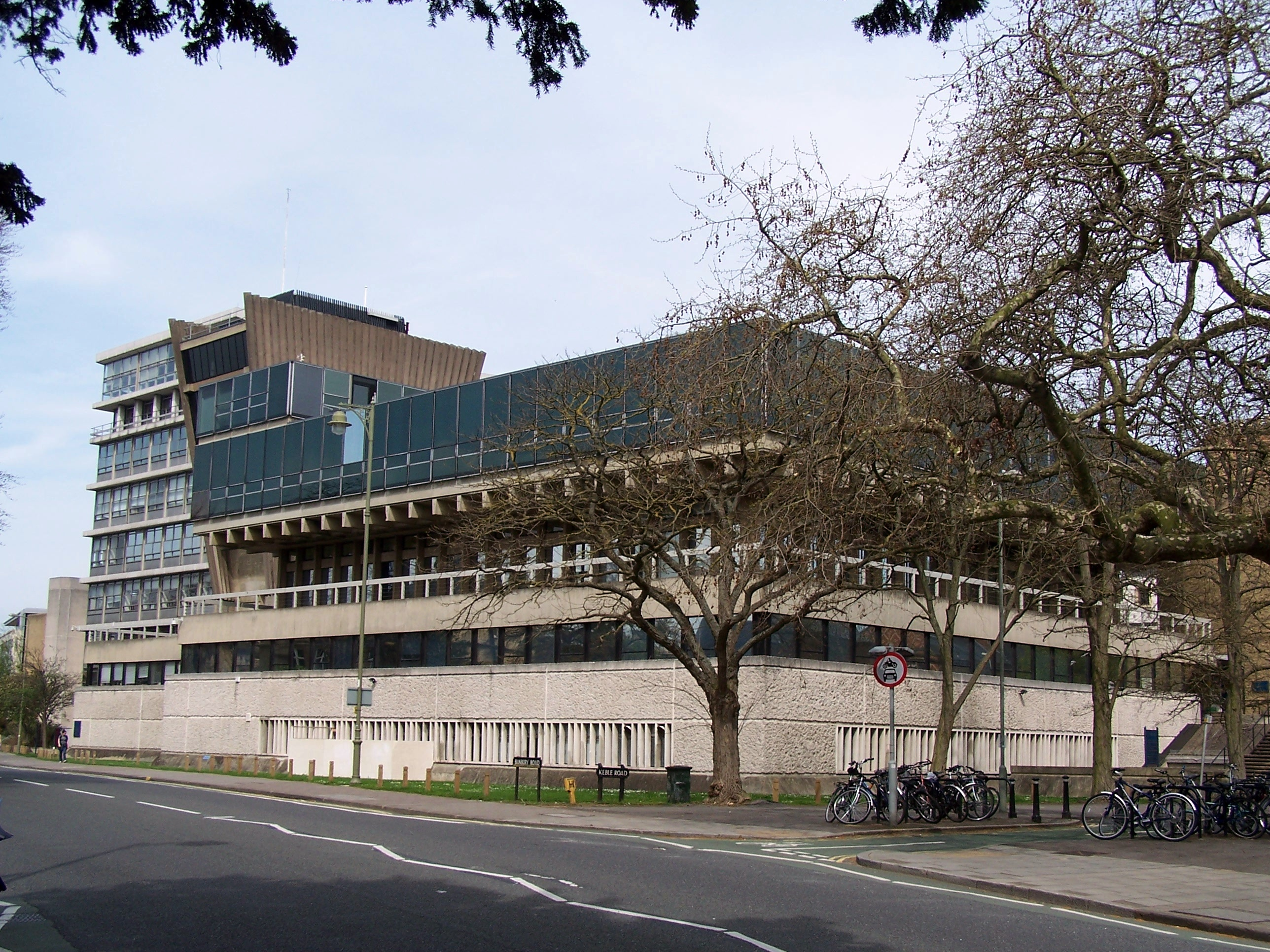 The Denys Wilkinson Building, formerly known as the Nuclear Physics Laboratory, part of the University of Oxford's Physics Department.